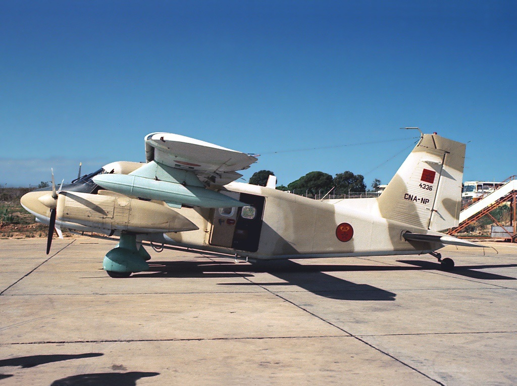 CNA-NP (cn 4336)